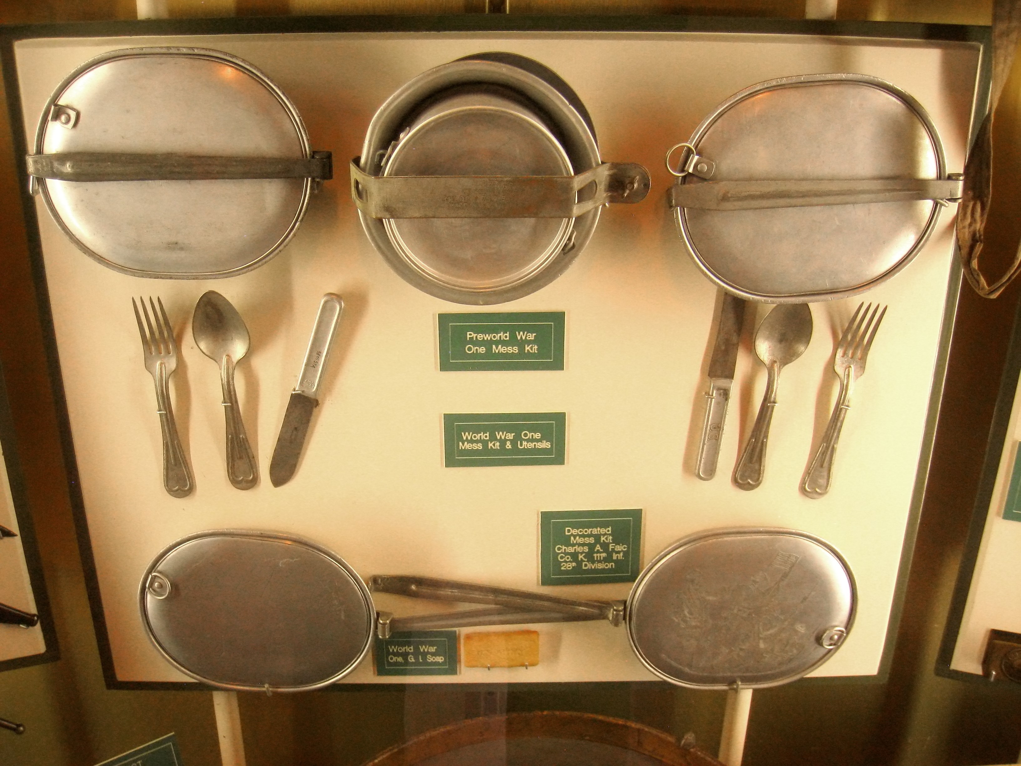 United States Army mess kits, pre-World War I and during World War I, exhibited in the Soldiers and Sailors National Military Museum and Memorial, Pittsburgh, Pennsylvania, USA.